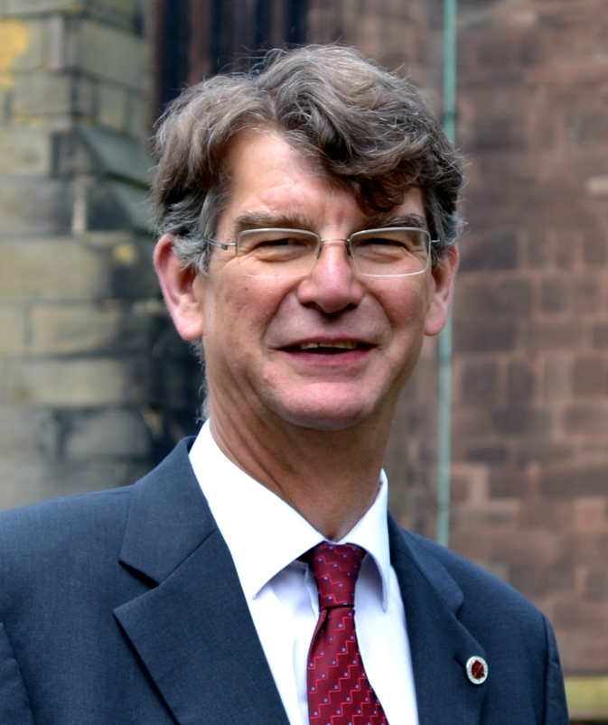 Profile picture of Parliamentary candidate Rob Marris in Wolverhampton